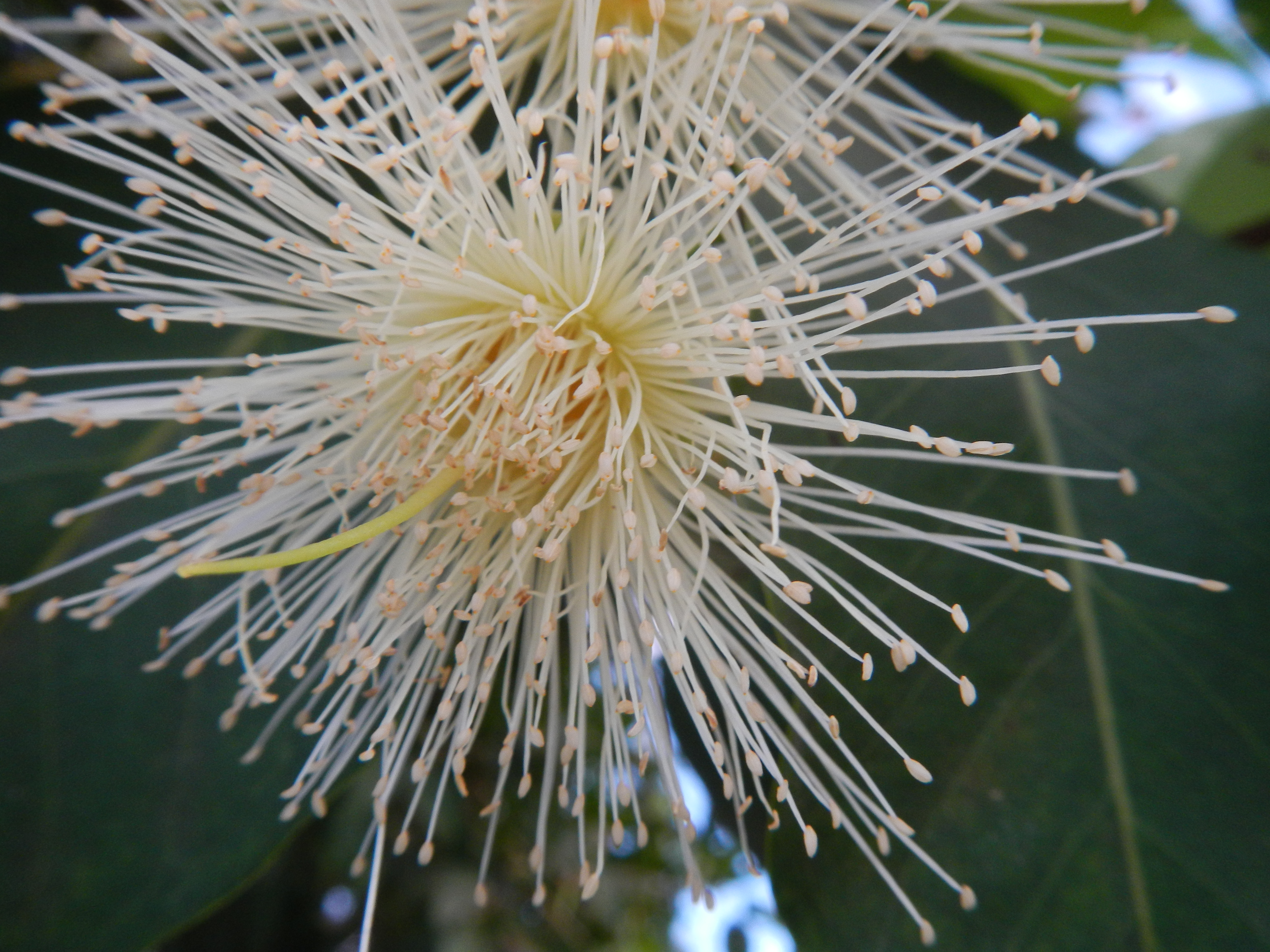 Syzygium samarangense in the Philippines Barangays Gulod, Maguinao, Diliman I, Diliman II, San Rafael, Bulacan Province, along Paddy fields of Diliman I and Diliman II, San Rafael, Bulacan in the Gulod, Maguinao-Diliman I-Diliman II, San Rafael, Bulacan Farm to Market Road).